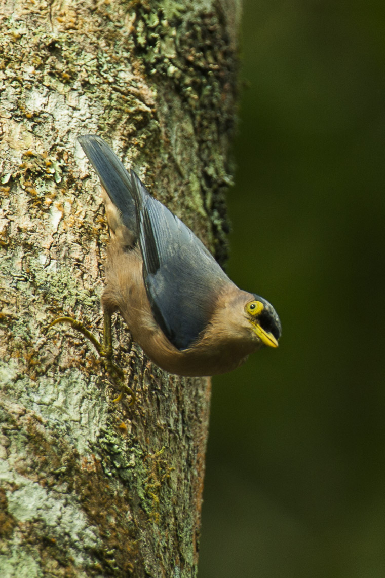 Sulphur-billed Nuthatch - Mindanao - Philippines_H8O0922